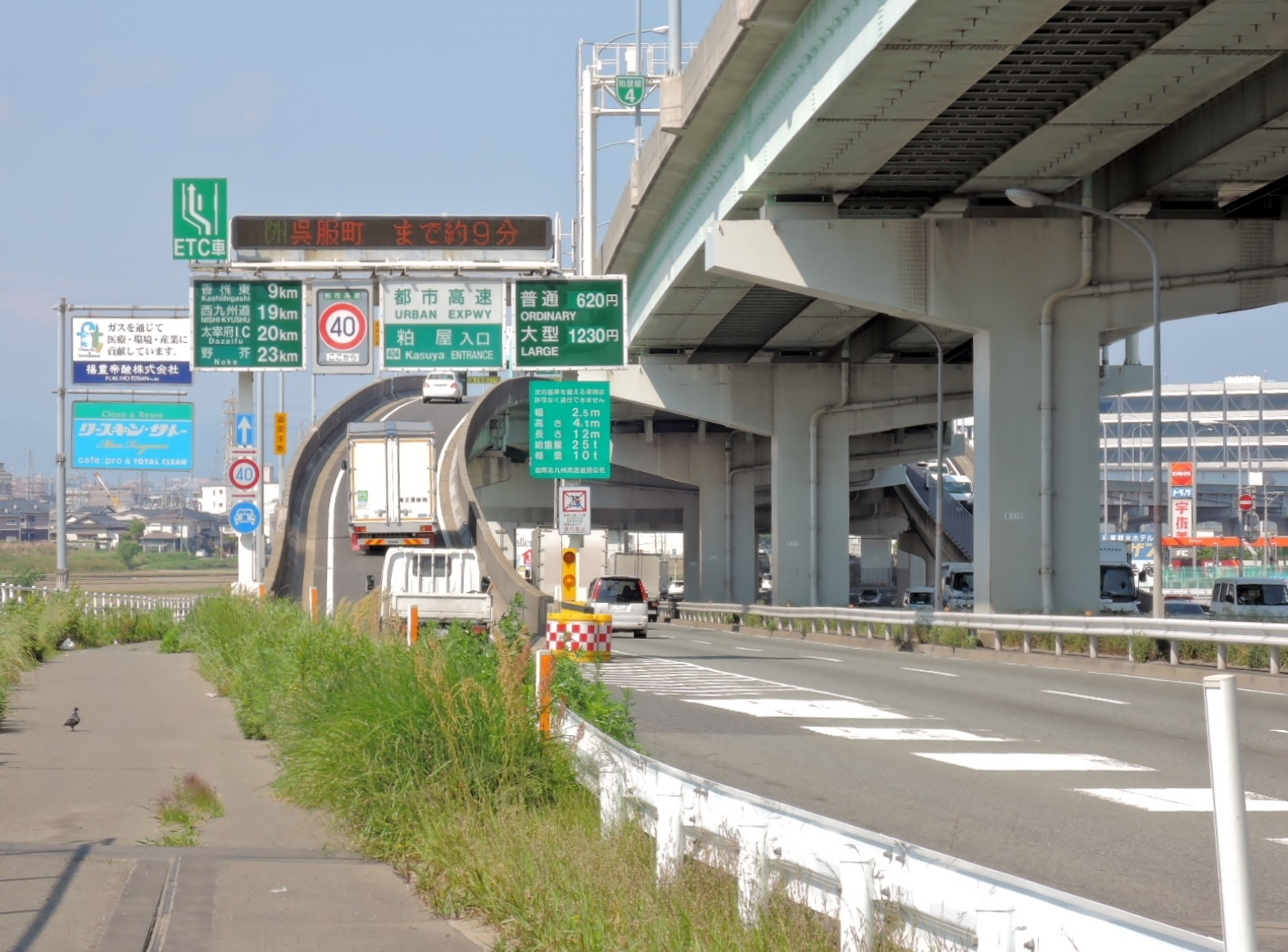 Kasuya Interchange on the Fukuoka Expressway Kasuya Route